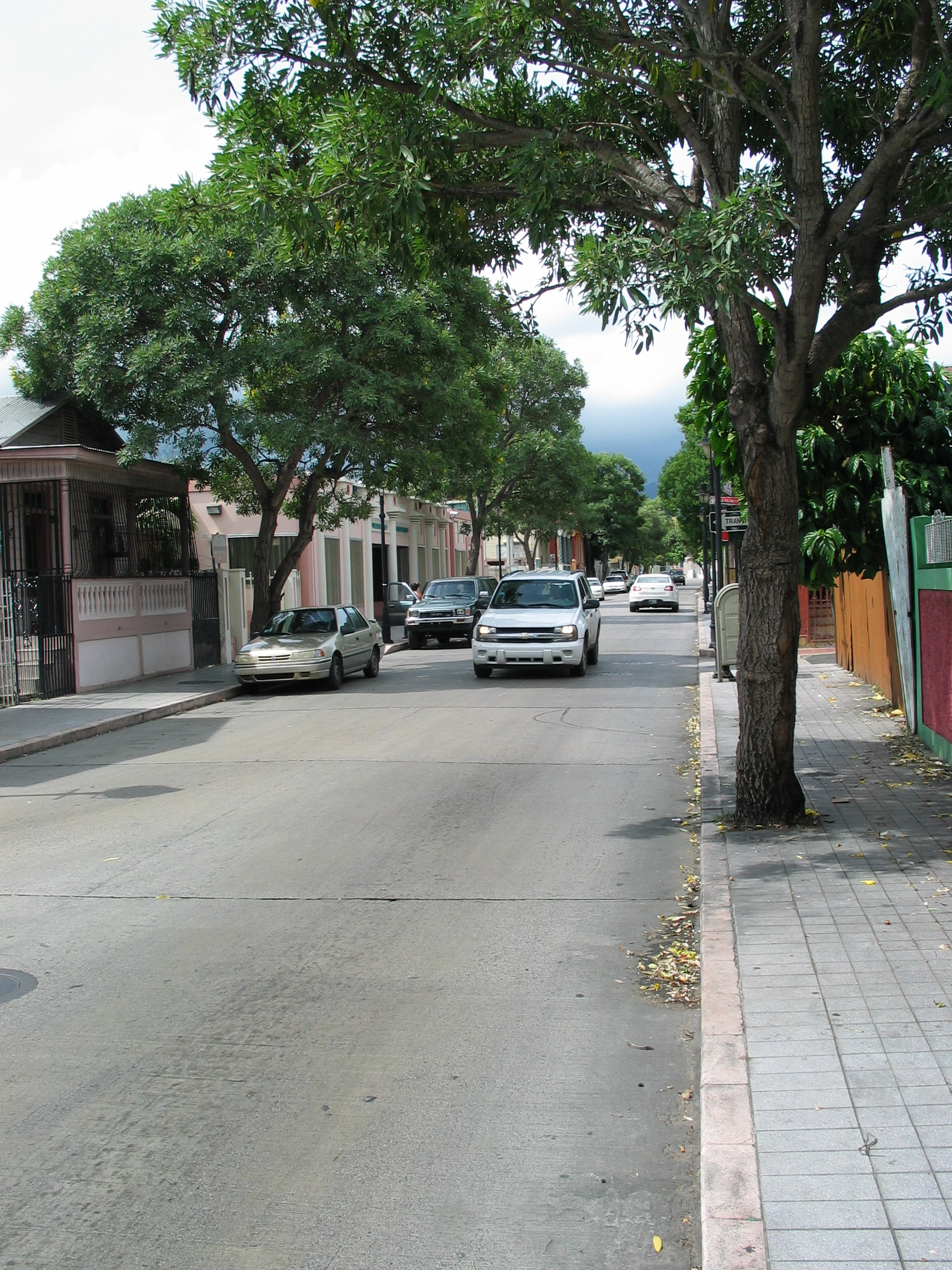 Calle Mayor Cantera (PR-503), en Barrio Sexto, en Ponce, PR, mirando hacia el norte (IMG 3684)